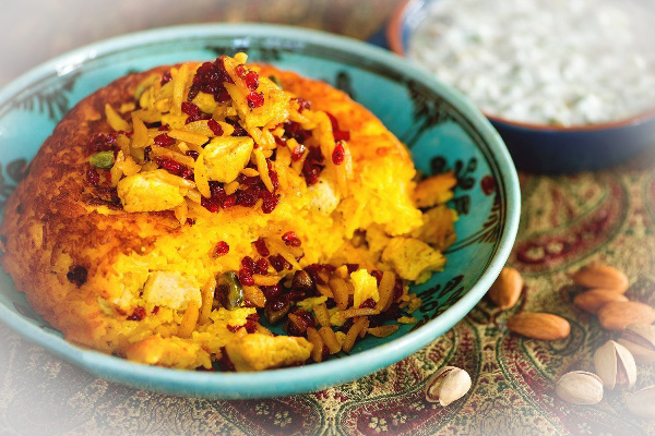 Saffron infused crisp rice cake cooked with chicken and yoghurt. Finished with barberries and sprinkled with pistachios